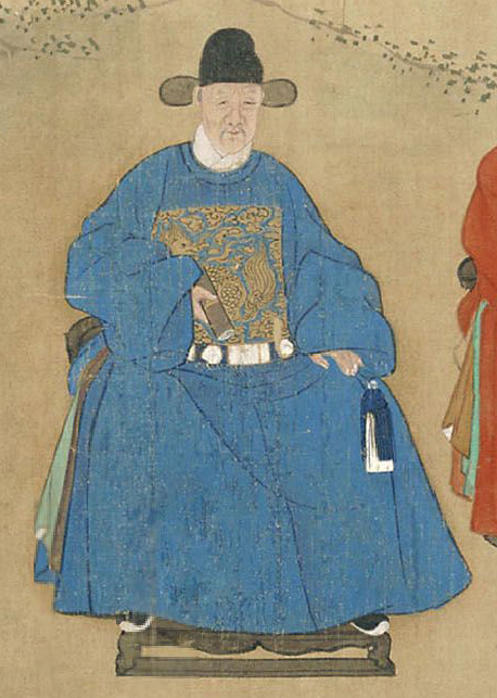 Li Dongyang